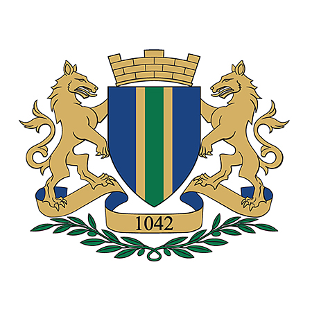 coat of arms of Bar, Montenegro, officially adopted on 15.12.2006.